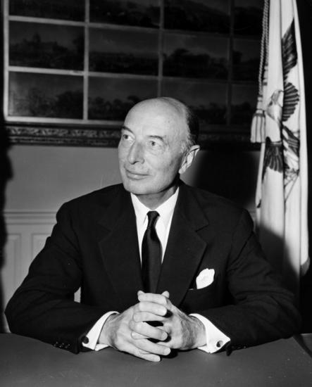 Robert Lovett, former Secretary of Defense of the United States.